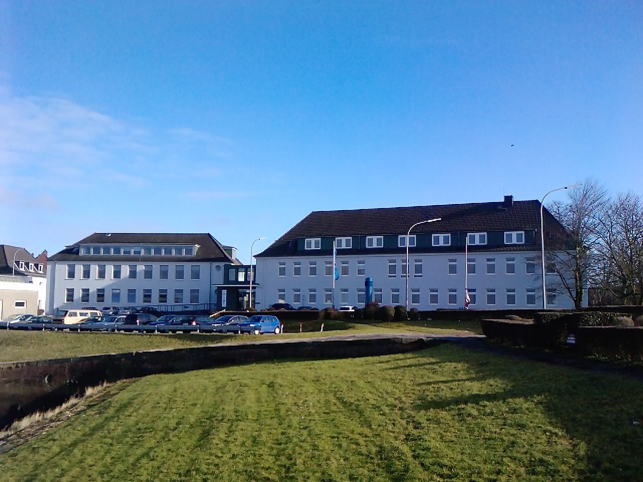 Building of the Imare GmbH